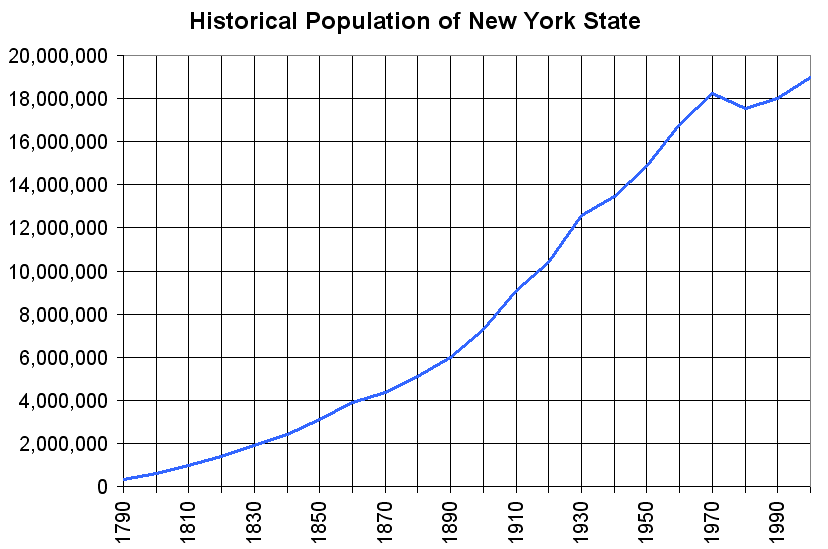 Graph depicting the historical population of New York State based on census data from 1790 to 2000